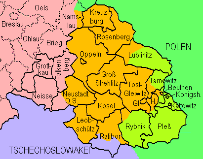 Upper Silesia plebiscite 1921: Lined borders = the German border of 1918 and districts of upper Silesia; dotted = Districts of lower Silesia; lilac = Czechoslovakia inclusive territories received from Germany without plebiscite; green = Poland; yellowish green = transferred to Poland after the plebiscite; orange = remaining in Germany after the plebiscite